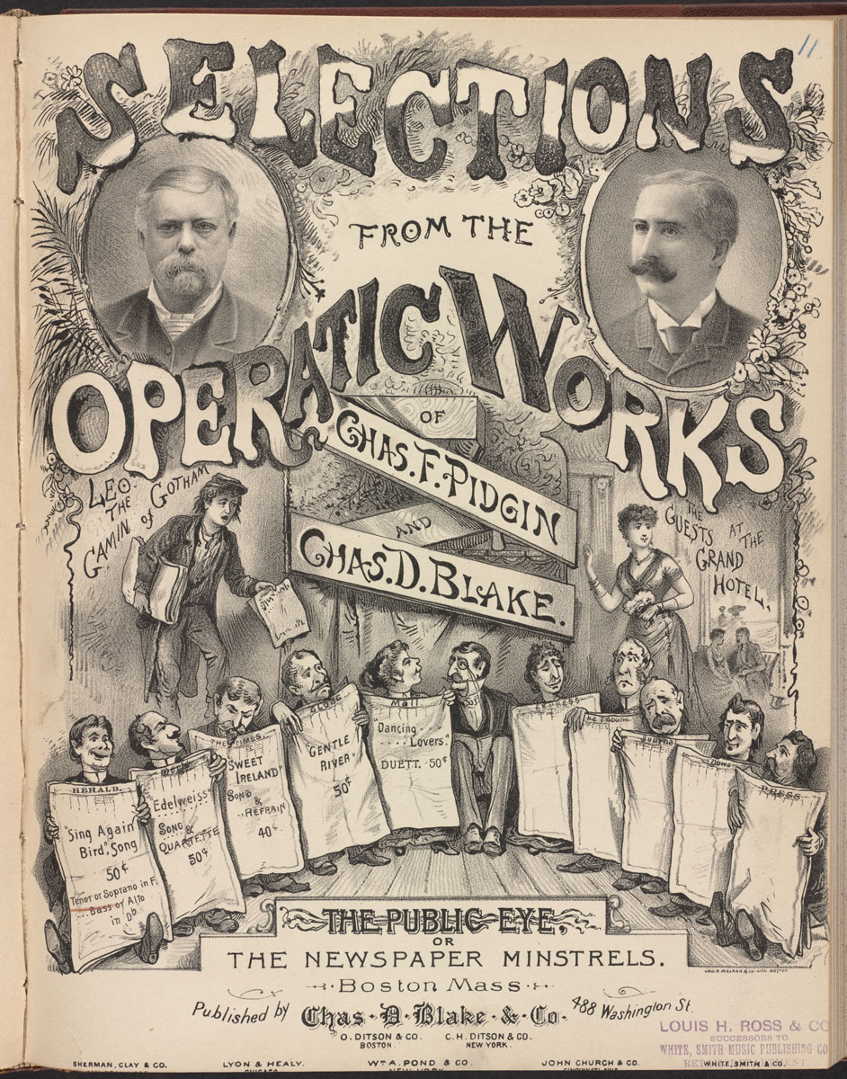 Accession No.: 07_07_000182 Call Number: no. 11 of **M.480.420.2 Lithographer: Walker, George H. Title of Lithograph: Charles F. Pidgin and Charles D. Blake Composer: Blake, Charles D. Title of Composition: Sing Again Place of Publication: Boston Publisher: Charles D. Blake Date: 1889 BPL Department: Music Flickr data on 2011-08-06: Camera: Sinar AG Sinarback 54 FW, Sinar m Tags: dc:identifier=07_07_000182 License: CC BY 2.0 User: Boston Public Library BPL